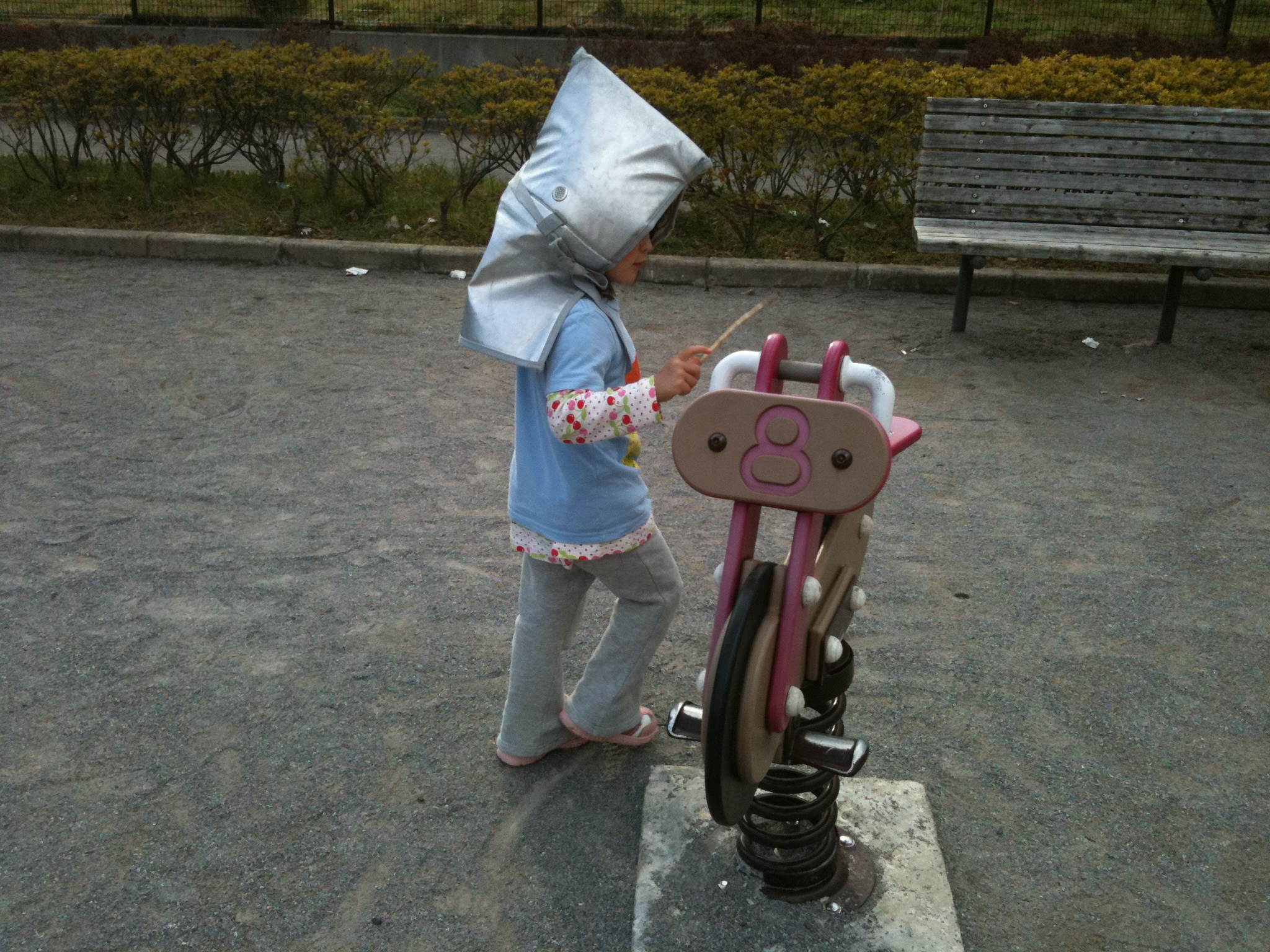 Earthquake